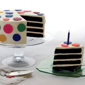 Traditional Devil's Food Birthday Cake